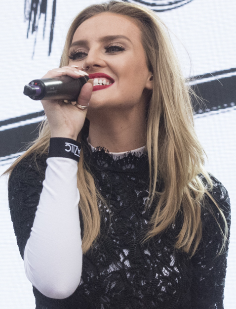 2015 Gibraltar Music Festival